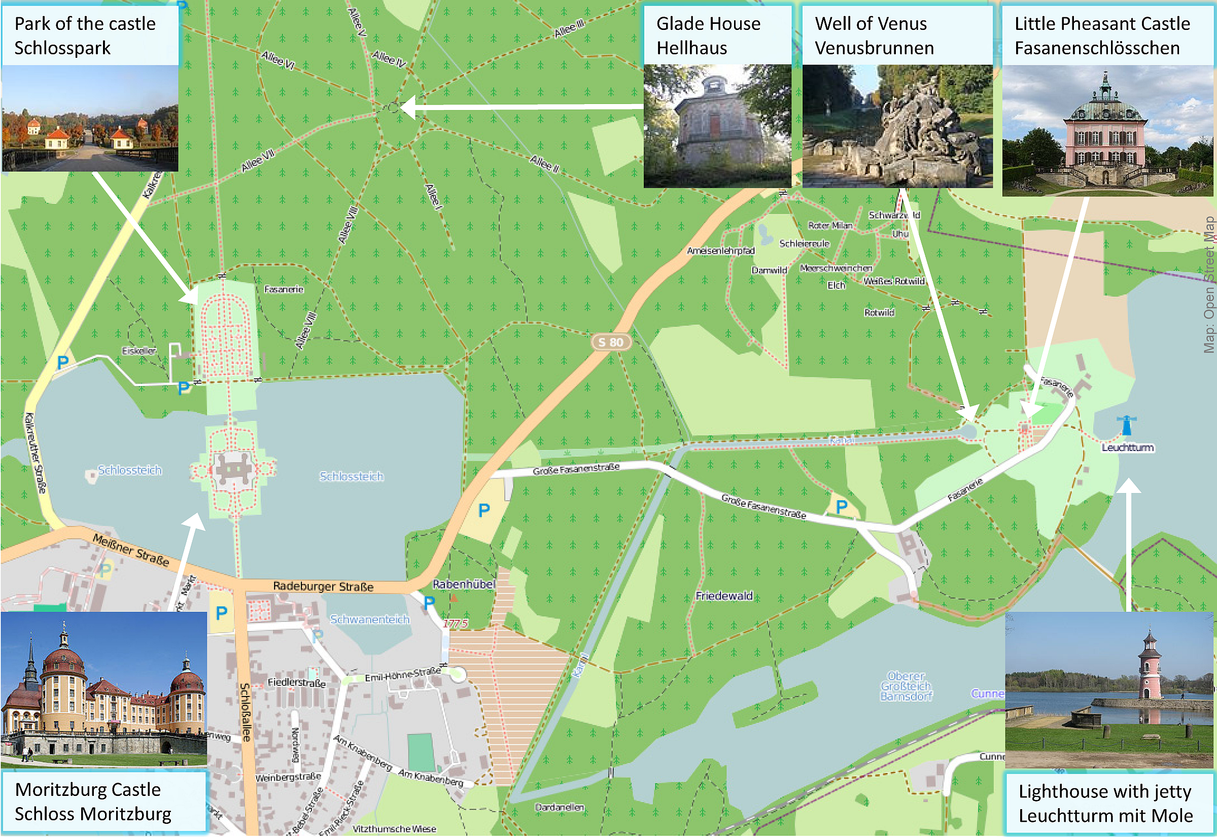 Map of the area surrounding Moritzburg Castle with main attractions